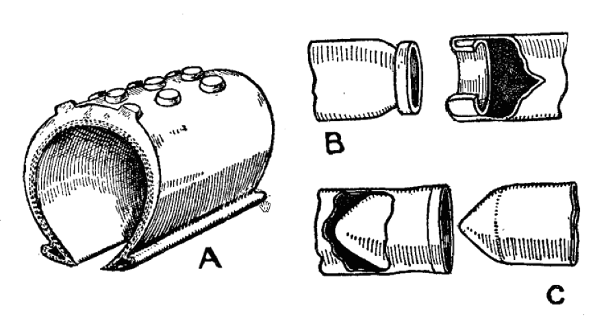 A: Typical outer casing of a tire made of Sea Island cotton impregnated with rubber, with more durable rubber used in outer tread. B: Continuous, one-piece, or open-end inner tube assembly, where first a joint is made where one end slips into the other, with the collar member forced out tightly against the inner face of the retaining member. C: A butt-end tube, where the the tapered, closed end fits into the open end, expanding to seal when inflated.